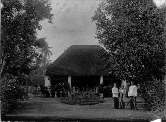 Married couple with baby and babu in front of their house